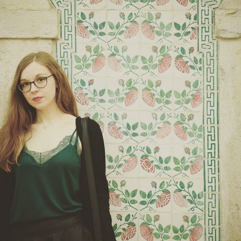 Simone Bauer (2020)